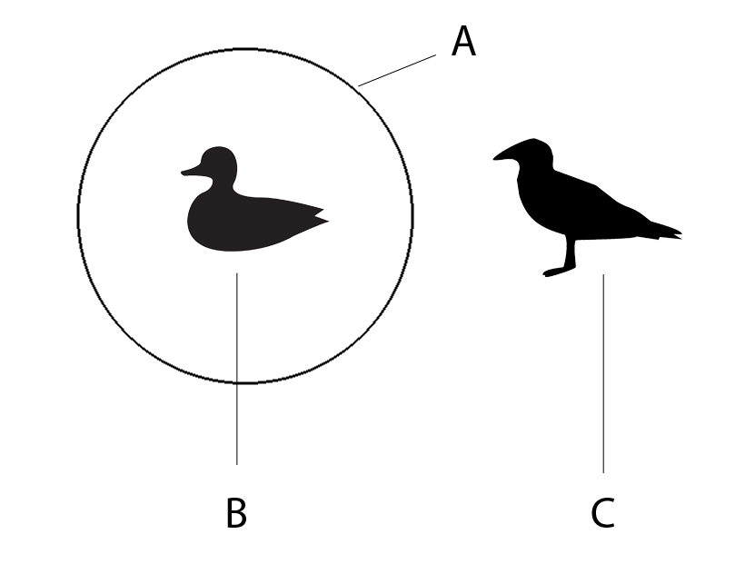 A is a defining criterion. B meets the criterion while C doesn't. After T. Givon, "Prototypes: Between Plato and Wittgenstein" [1]